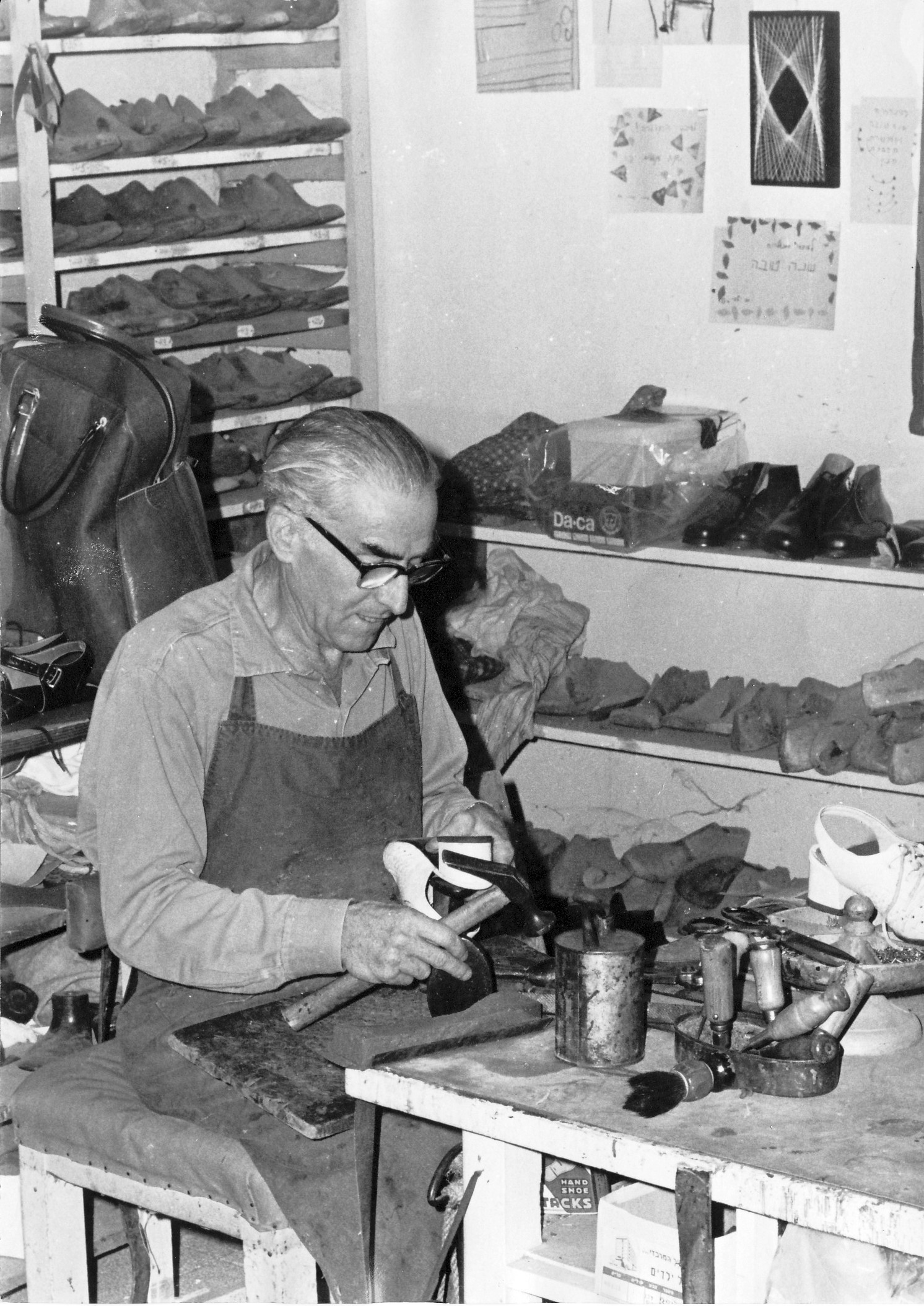 Gan-Shmuel sb4- 15, Econimy of Israel